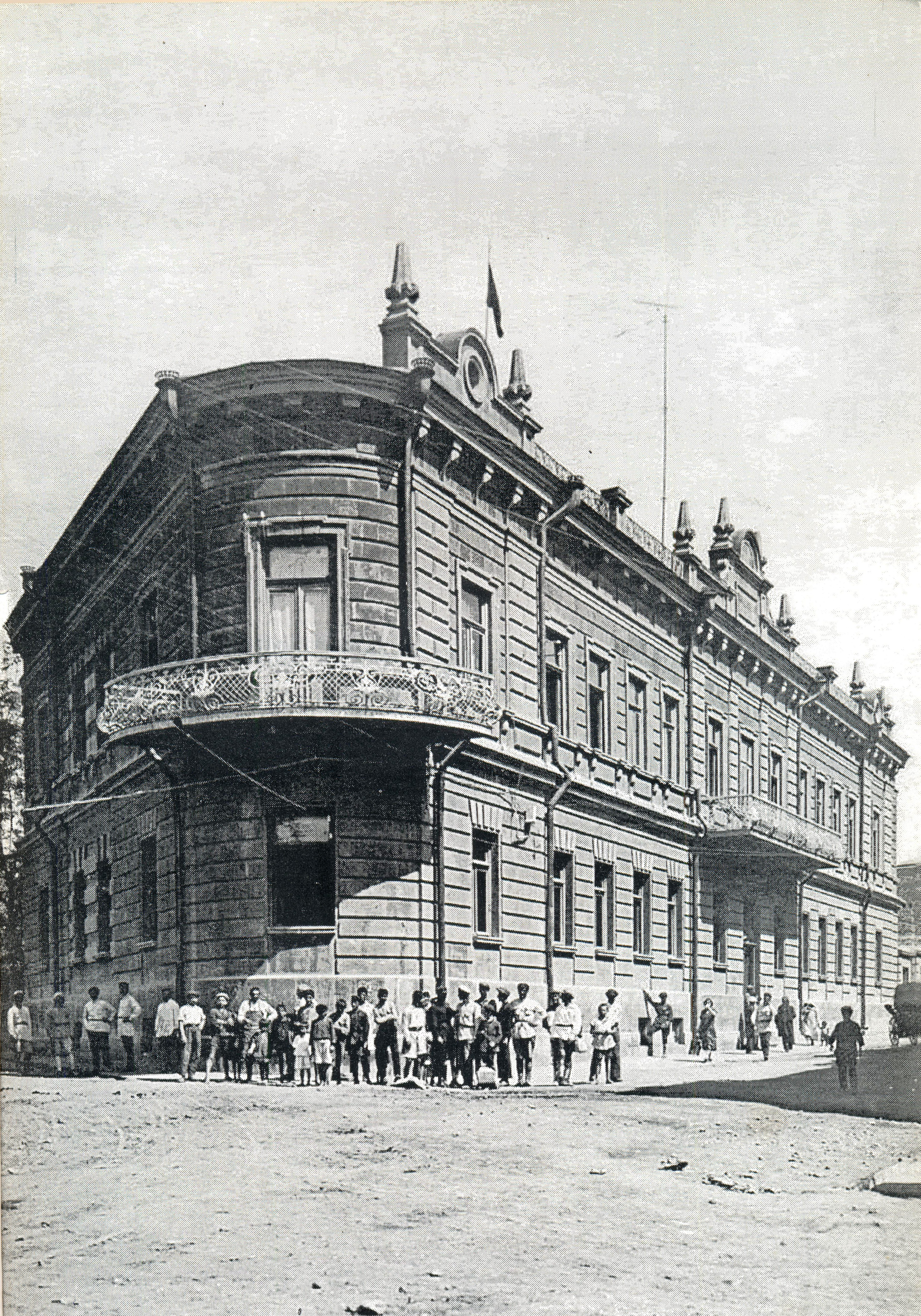 Government house of First Republic of Armenia, Yerevan